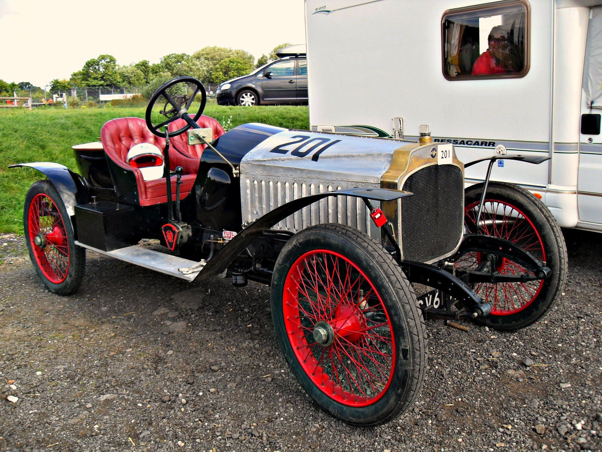 Vauxhall A-type with racing body 16/20 hp, Engine number 2732A